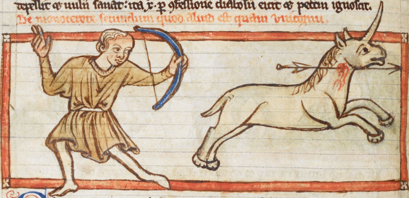 Monoceros - Bestiary Harley MS 3244, ff 36r-71v